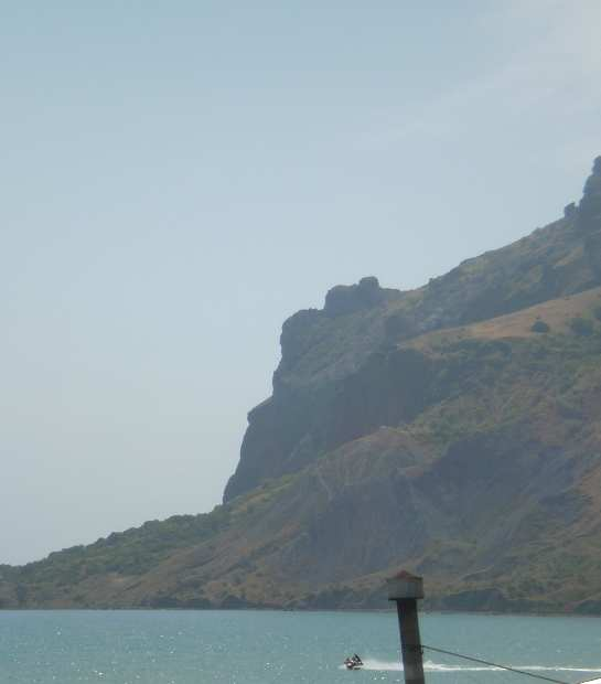 Kara-dag looks like M.Voloshin's face